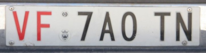 License plate for vehicles of firefighters of the Province of Trento (Italy)